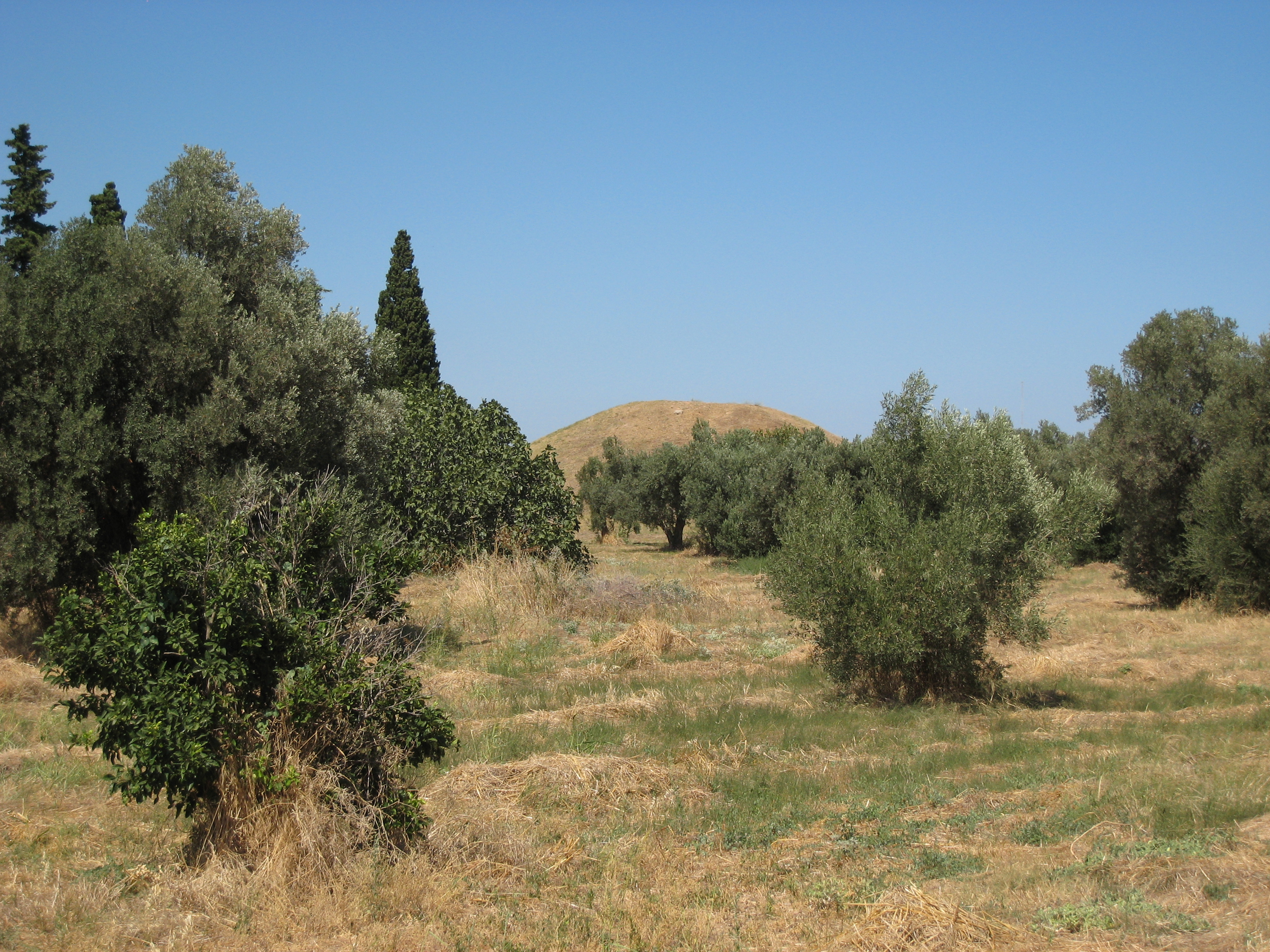 Burial mound for 192 Athenian' soldiers died during the battle of Marathon.